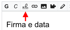 Signature and timestamp screenshot